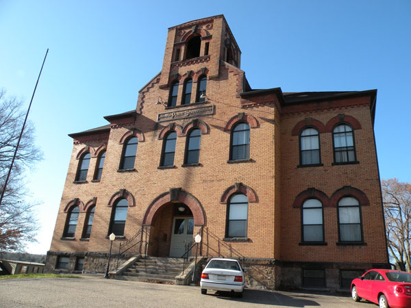 Picture of Oakdale Public School located at the corner of Hastings Avenue and Noblestown Road in Oakdale, Pennsylvania, on November 14, 2009. The Roman numerals on the front of the building indicate the year Anno Domini MDCCCICIV, 1905, and it is listed on the National Register of Historic Places.